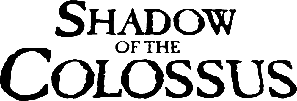 Shadow of the Colossus logo